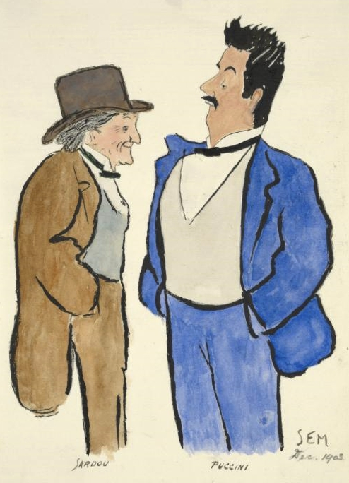 Victorien Sardou (1831-1908) and Giacomo Puccini (1858-1924)) by Sem (1863-1934). Puccini's opera Tosca was based on Sardou's play La Tosca.